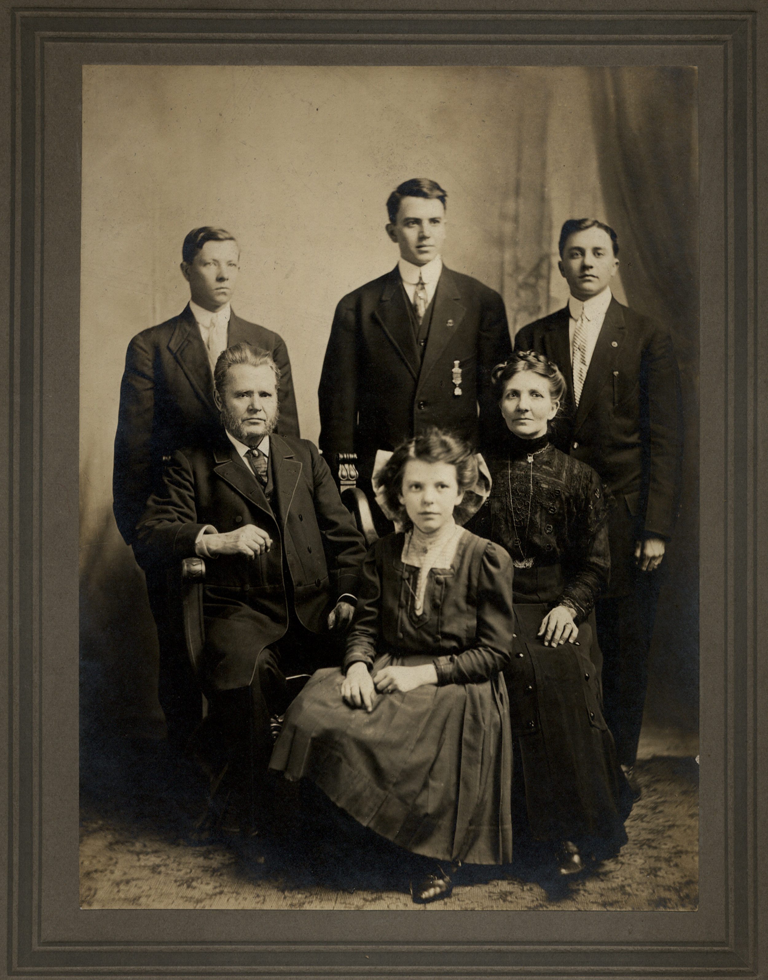 The Soderstrom family, circa 1900